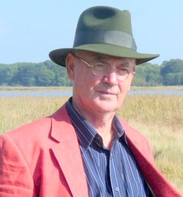 Photo of Garry Kilworth